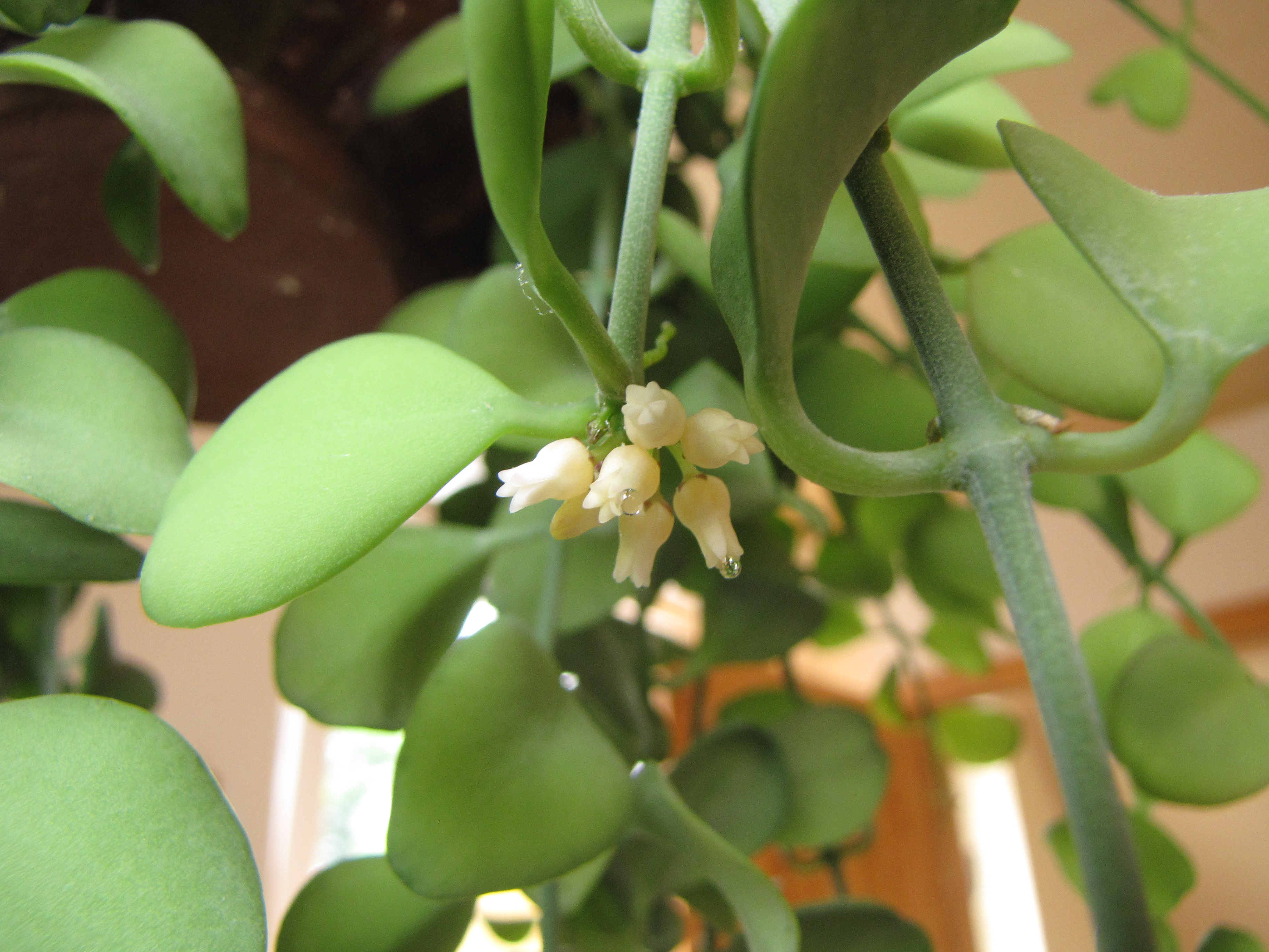 Dischides nummularia R.Br., Asclepiadoideae, Apocynaceae